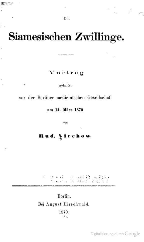 Scan of a book